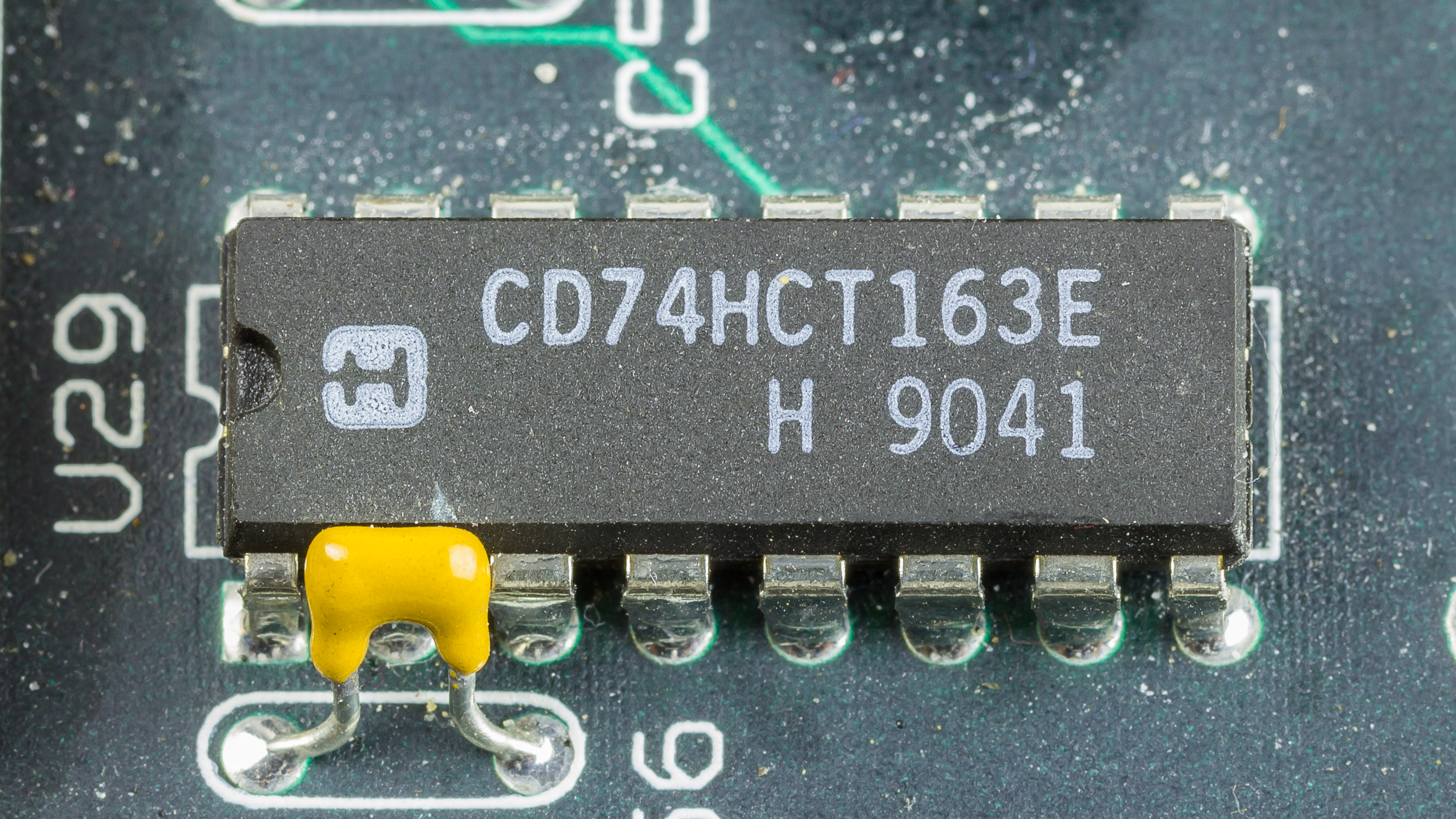 Basic Measuring Instruments - Math Processor 83002190 - Harris CD74HCT163E - High-Speed CMOS Logic Presettable Counters